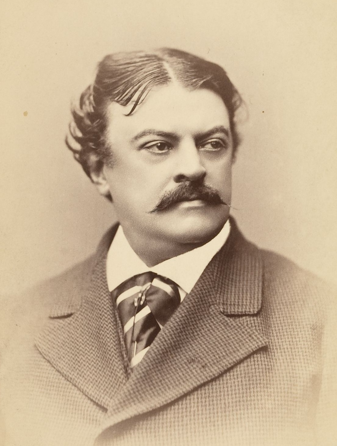 Cabinet card image of Italian American opera singer Pasquale Brignoli (1824-1884). Cropped version. TCS 1.3617, Harvard Theatre Collection, Harvard University